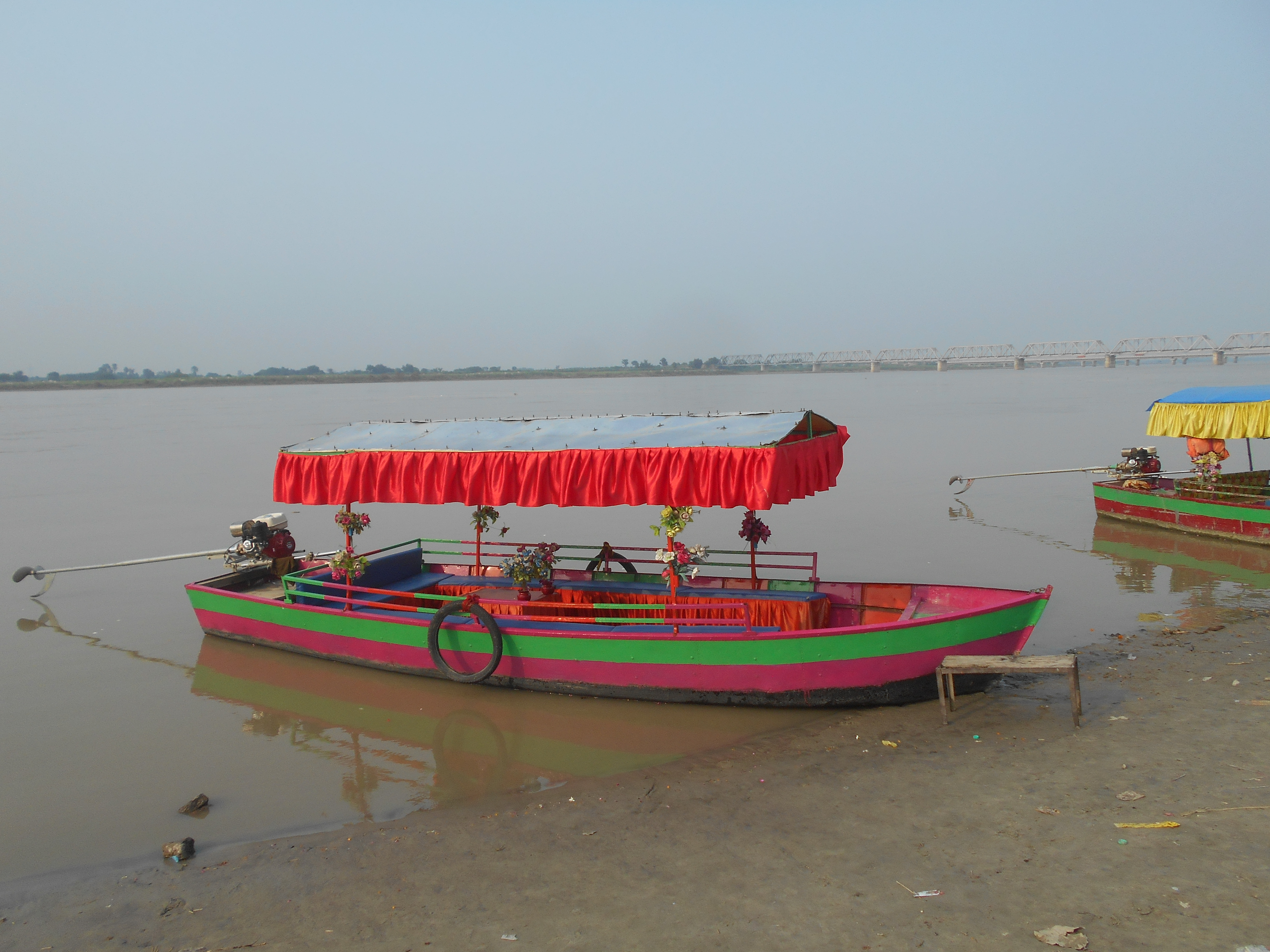 River Sarayu or Ghaghar